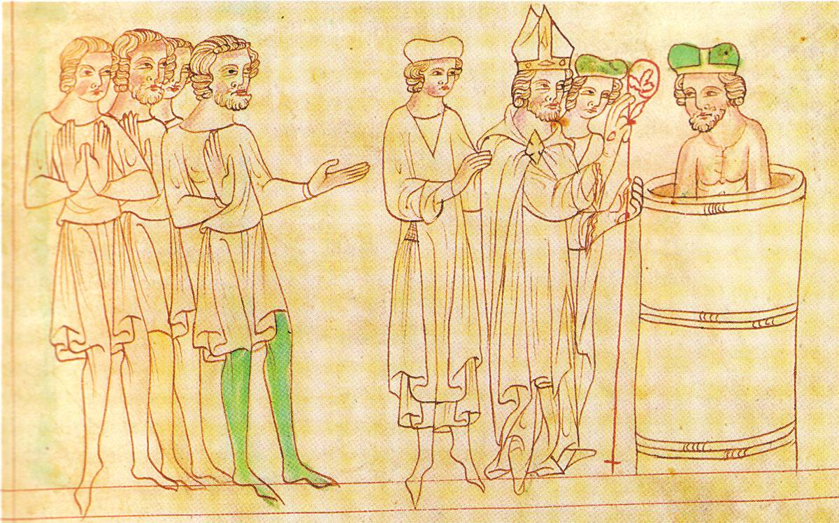 Baptism of the bohemian duke Borivoj. Velislav bible, 14. century.